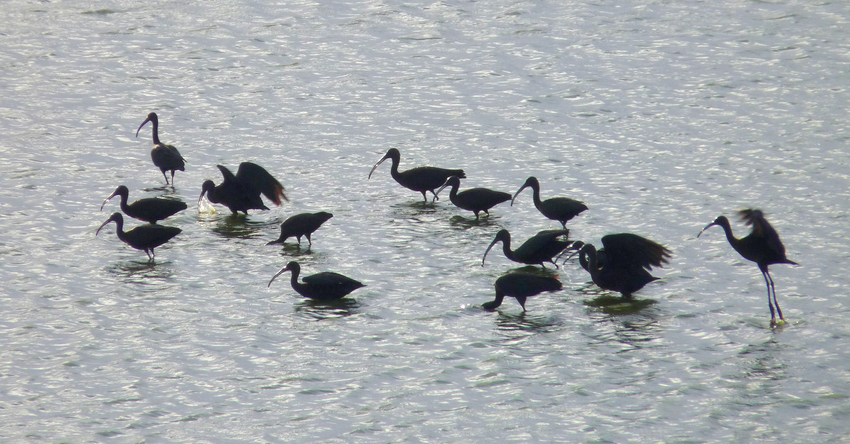 Glossy Ibises (Plegadis falcinellus) seen at Singanallur Lake, Coimbatore.